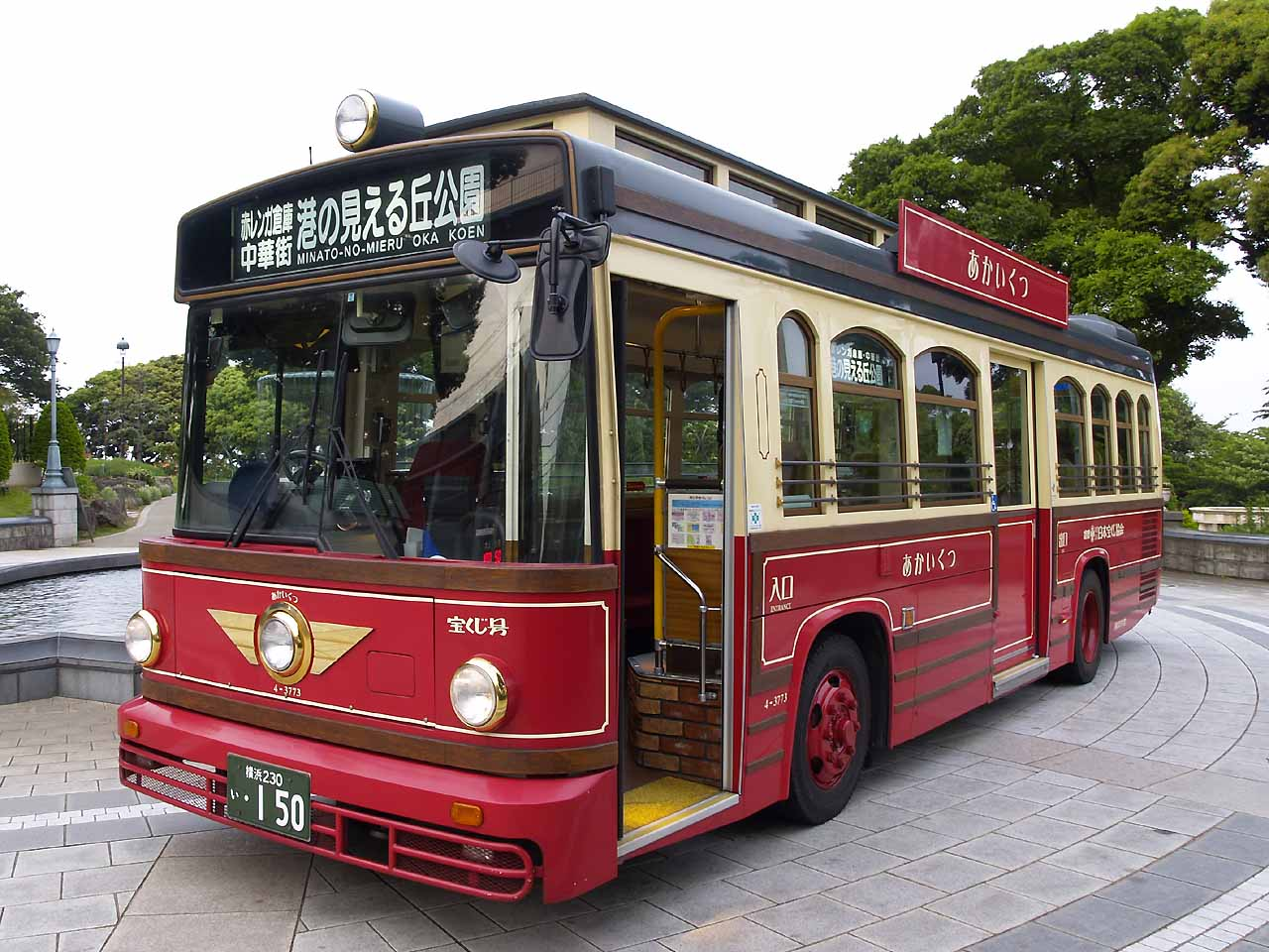 Fleet of Yokohama city municipal bus "AKAIKUTSU" (red shoes), design imaged from old tram. Model: Hino Rainbow HR (PB-HR7JHAE) Customize: Tokyo Special Coach License plate: KNY230 I-150 Base: Honmoku Dept. Place: Harbor View Park: Yamate, Naka Ward, Yokohama, Kanagawa Japan 横浜市交通局の観光スポット周遊バス「あかいくつ」。明治期の路面電車をイメージしたデザインのためダミーの前照灯が屋根に装着されている。 ベース車：日野レインボーPB-HR7JHAE 施工：東京特殊車体 登録番号：横浜230い・150 局番：4-3773（本牧営業所）